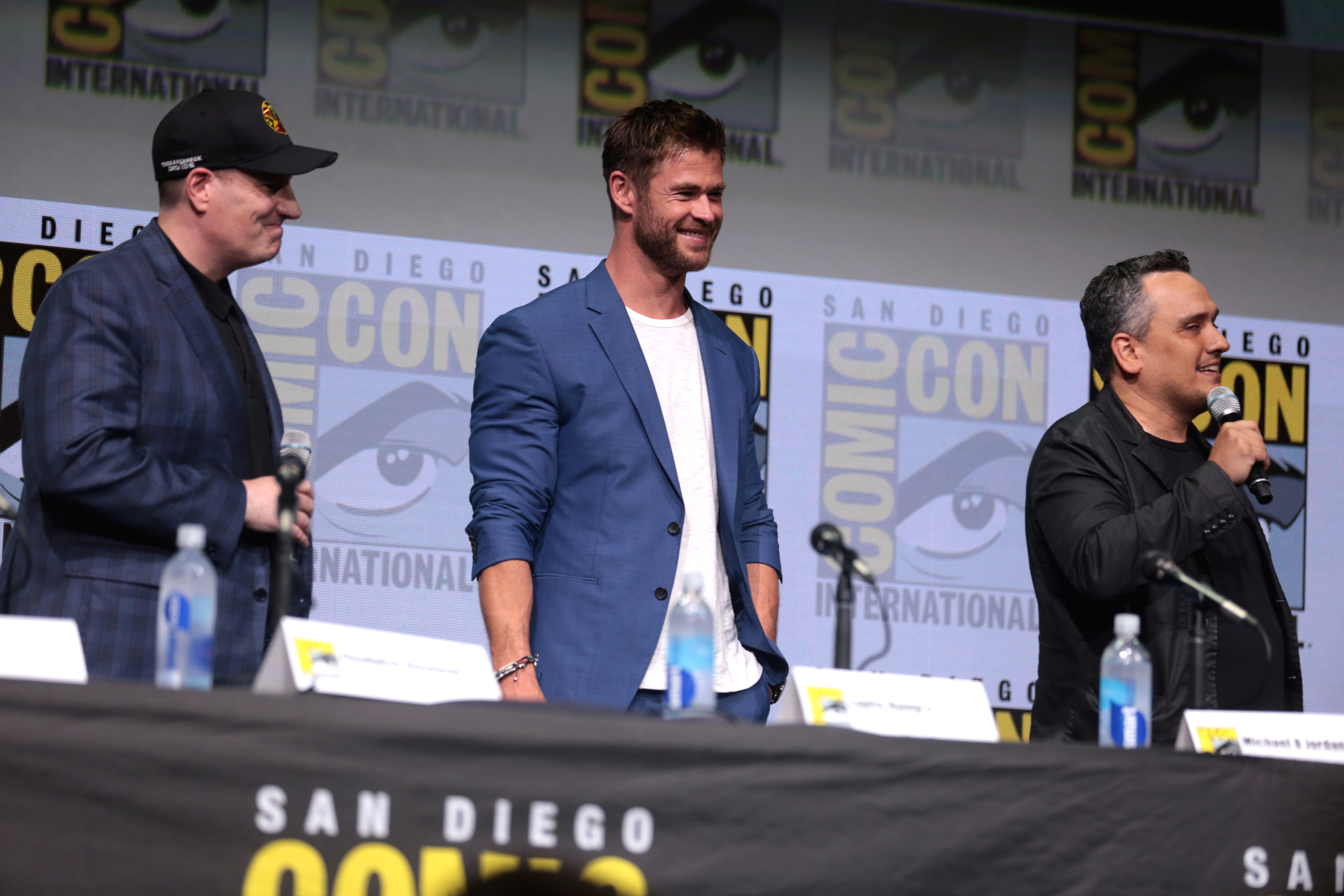 Kevin Feige, Chris Hemsworth and Joe Russo speaking at the 2017 San Diego Comic Con International, for "Avengers: Infinity War", at the San Diego Convention Center in San Diego, California.